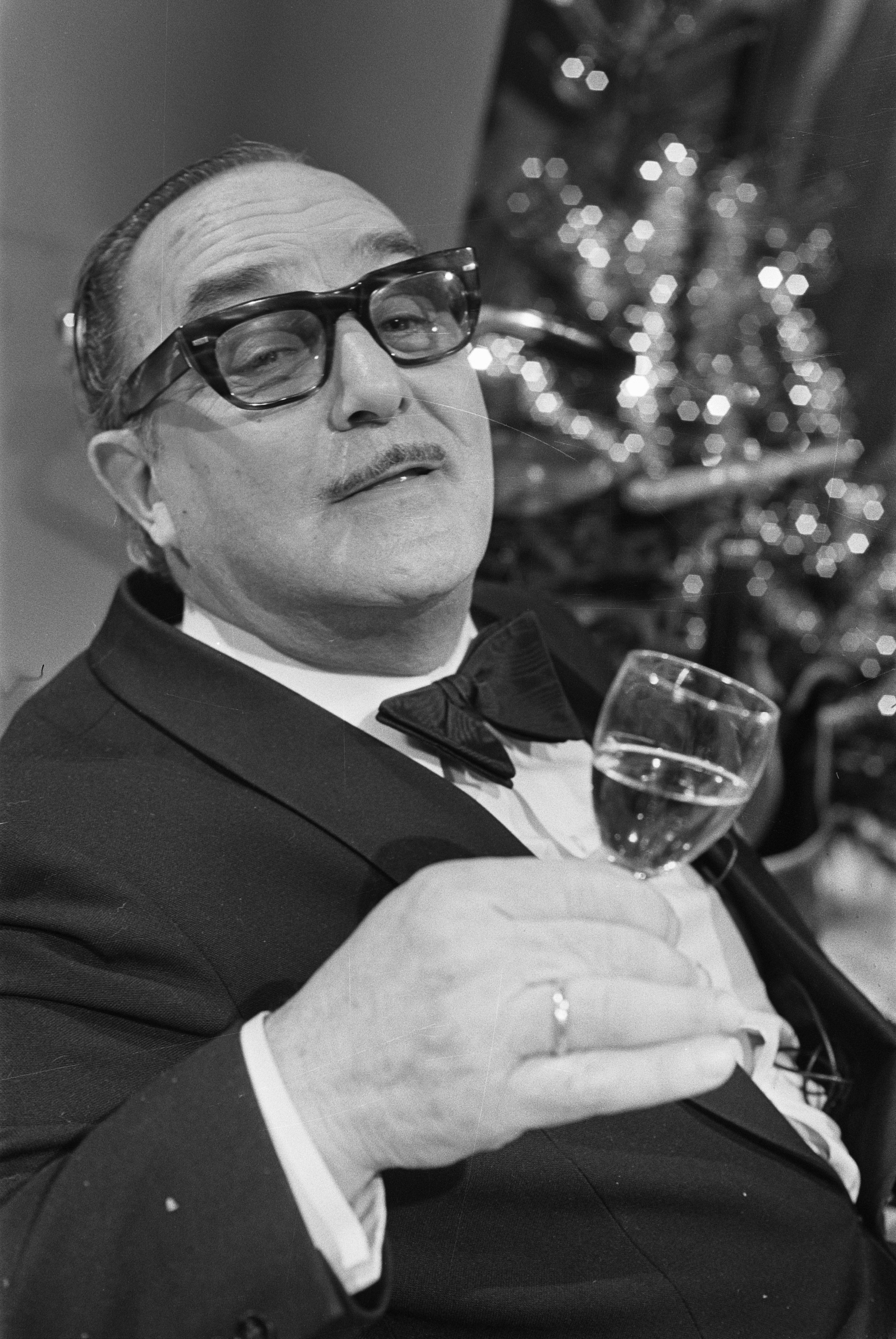 The Van Oekel show on the VPRO (Dutch television), shooting for Christmas, Sjefke of Oekel with a glass of champagne December 5, 1974 Hebt u meer informatie over deze afbeelding, laat het ons weten. Laat een reactie achter (als u ingelogd bent bij Flickr) of stuur een mailtje naar: Please help us gain more knowledge on the content of our collection by simply adding a comment with information. If you do not wish to log in, you can write an e-mail to: Meer foto’s van het Nationaal Archief zijn te vinden in de fotocollectie op gahetna.nl